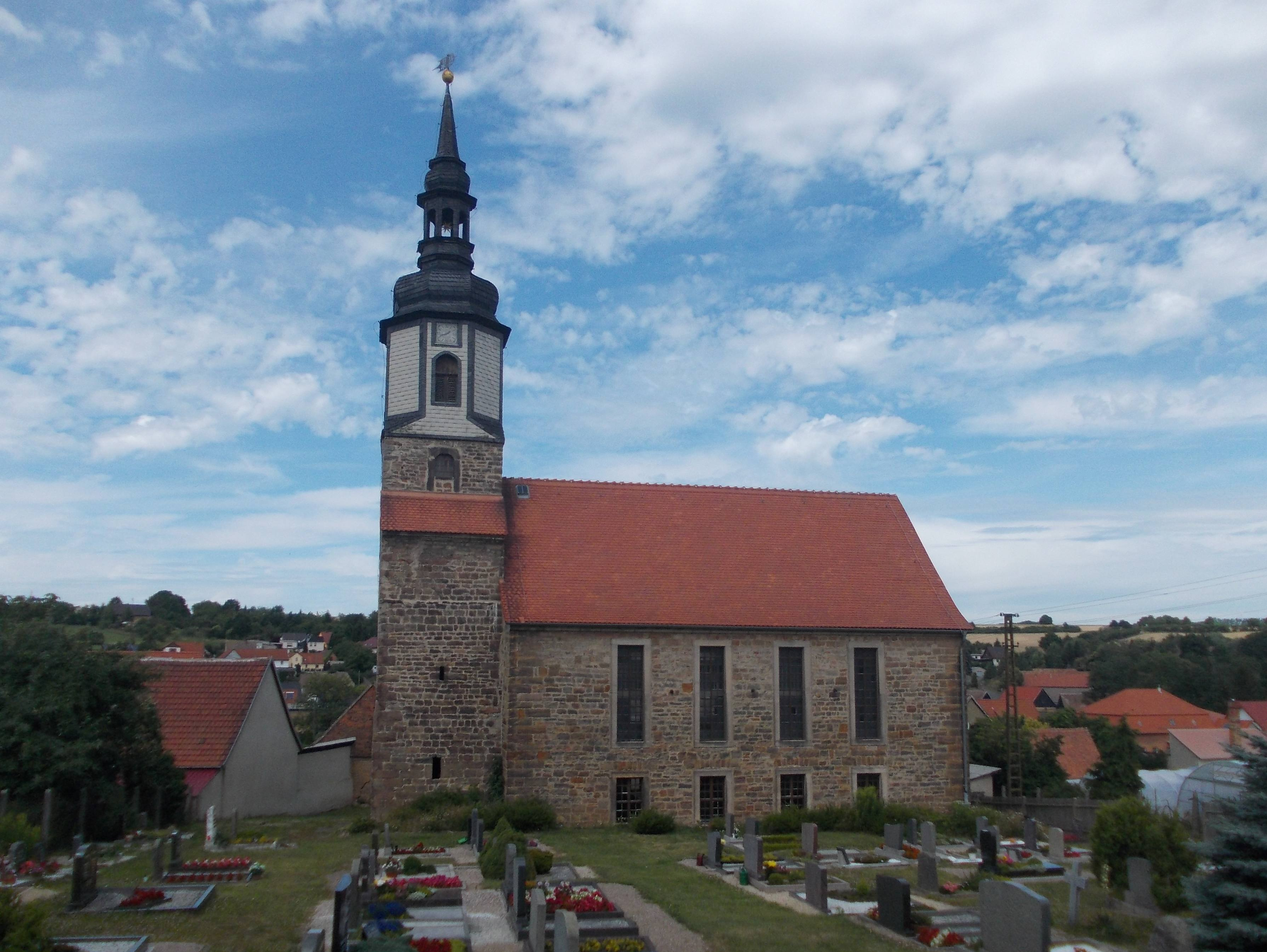 St. James' Church in Saubach (Finneland, district: Burgenlandkreis, Saxony-Anhalt)